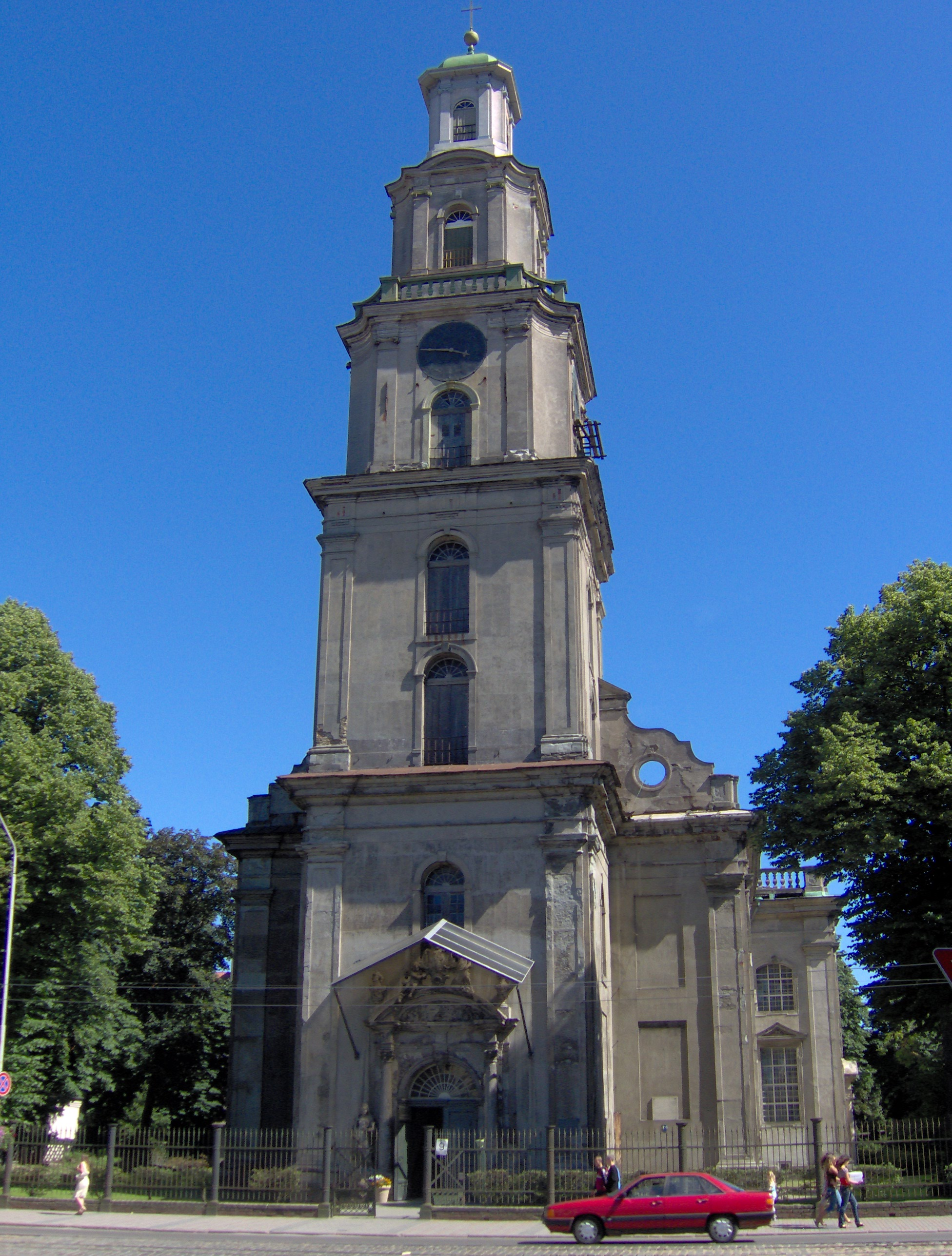 Holy Trinity Cathedral, Liepāja, Latvia.